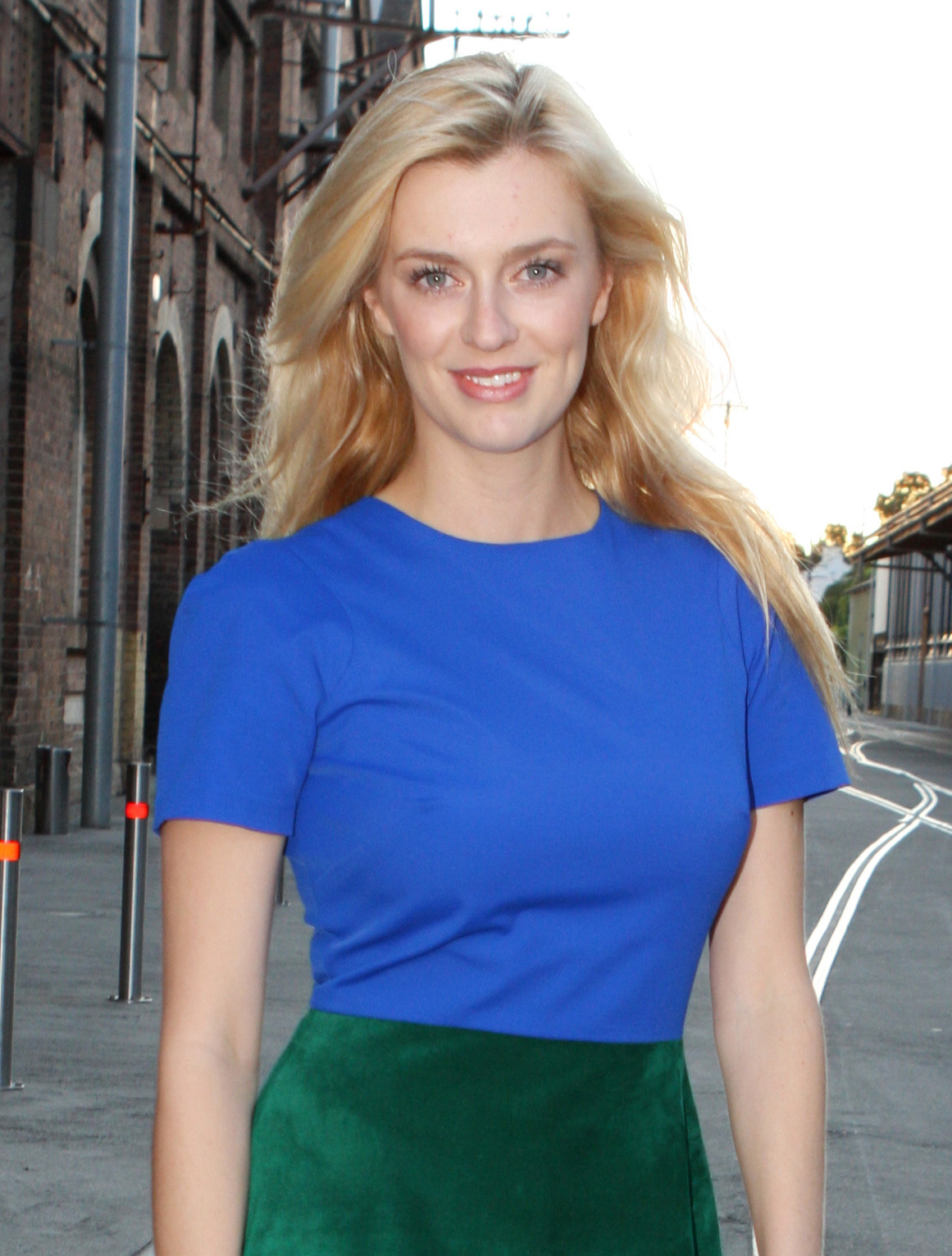 Gracie Otto at an ASOS event in Sydney, Australia in October 2011.